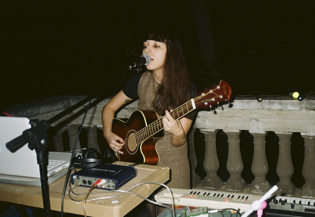 Paula Garcia live at Fiesta del Reves.